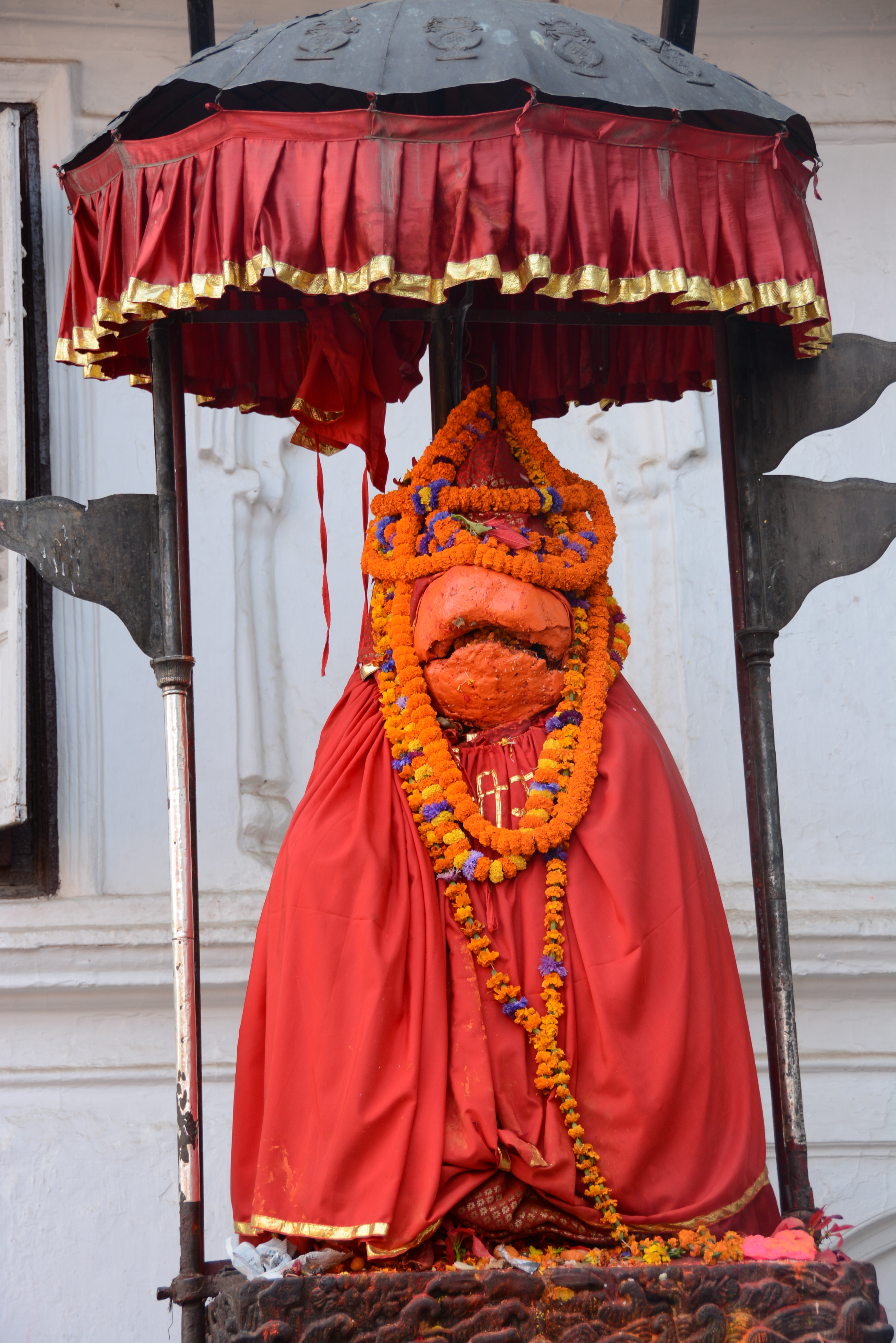 Kathmandu Durbar Square, Hanuman Dhoka, Kathmandu Nepal